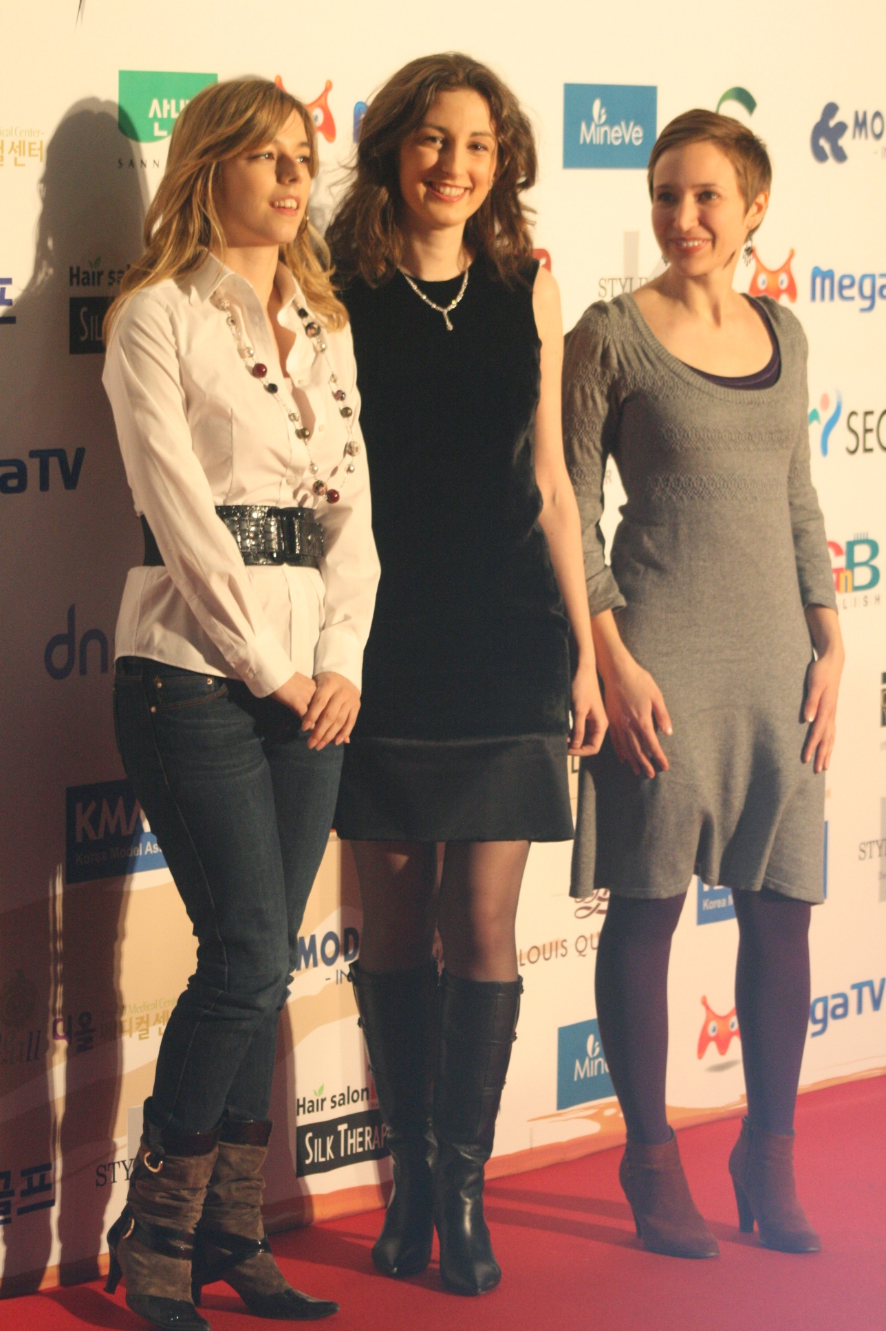 Dominique Noël, Cristina Confalonieri and Vera Natalie Hohleiter at the 2009 Asian Model Awards.